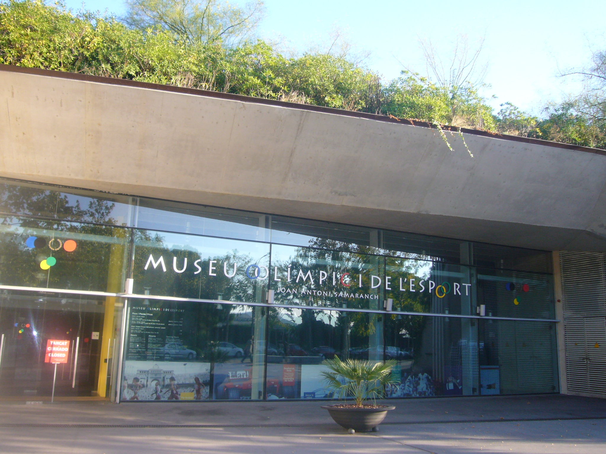 Entrance to Museu Olímpic Joan Antoni Samaranch, Montjuïc, Barcelona